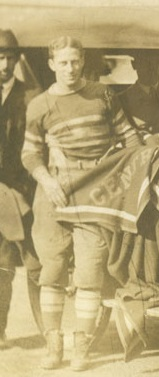 Snoddy cropped from Centre College football players relaxing outside Harvard Stadium, one day prior to the historic defeat of the Crimson. He is holding a Centre blanket.